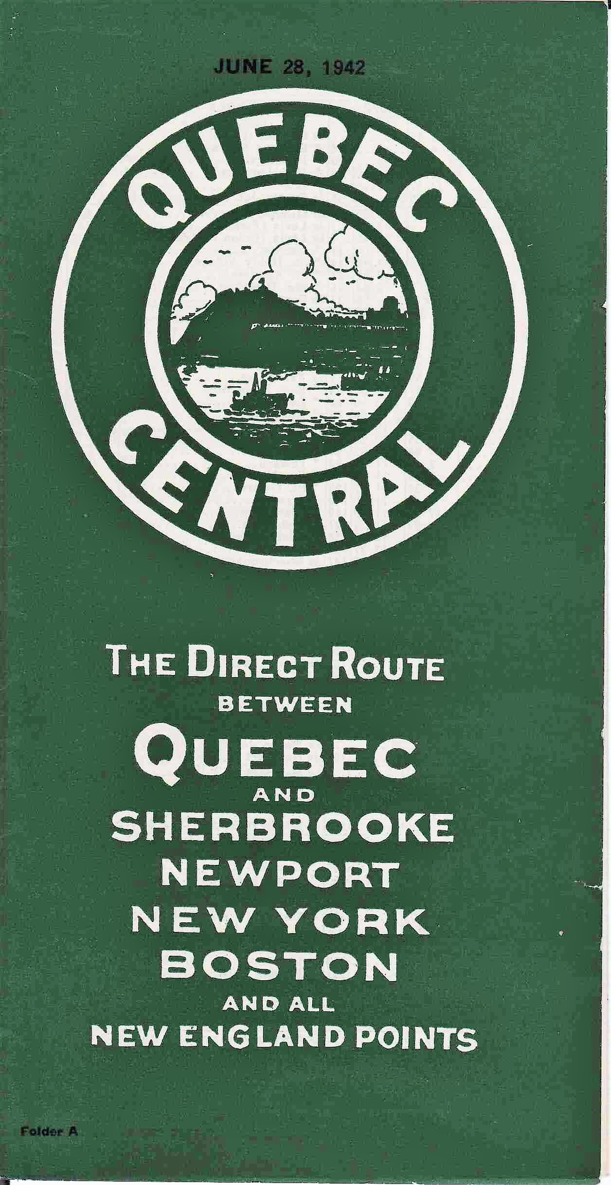 Quebec Central, The Direct Route between Quebec and Sherbrooke, Newport, New York, Boston and all New England Points.